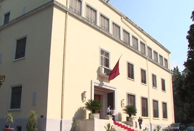 View of the facade of Presidential Palace of Tirana Other information